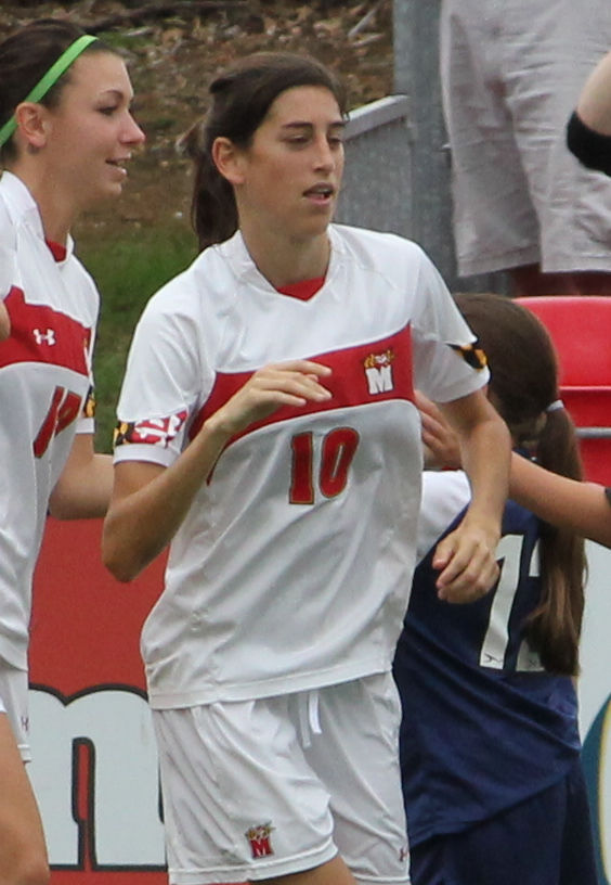 Our girls carried the flag before the game.